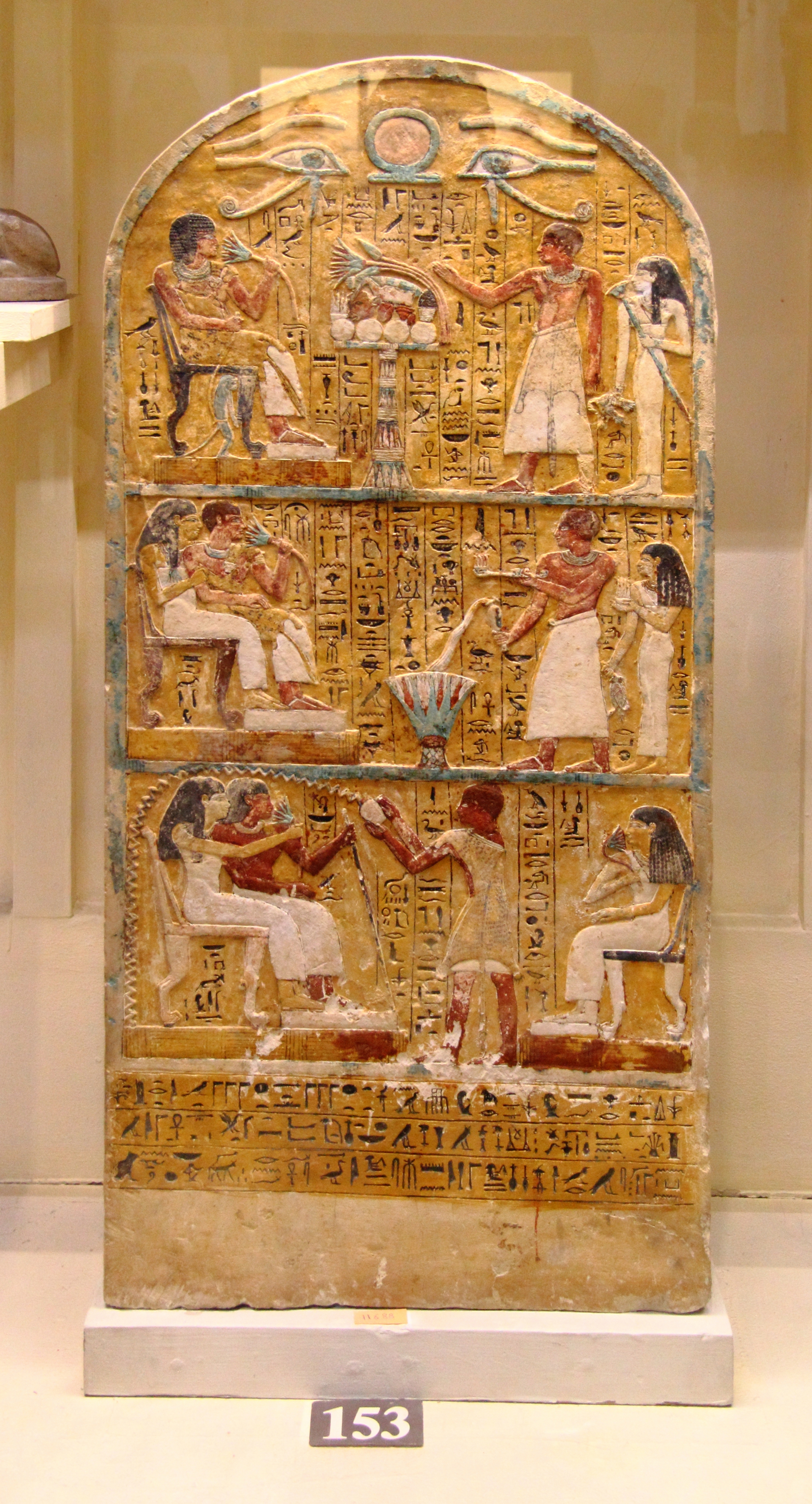 Egyptian Museum Cairo: Tomb stele of the ancient Egyptian priest Nebnakhtu and his family, painted limestone, Sedment el-Gebel, New Kingdom, Eighteenth Dynasty, ca. 1500 BC